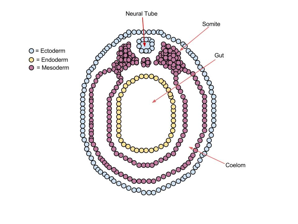 This diagram depicts a cross section of a vertebrate embryo in the neurula stage. The sections labeled are the major contributors in the formation of vertebrate structures and organs. The notochord functions as a dorsal supporting rod, and it is later replaced by the vertebral column in all vertebrates except lancelets. The neural tube becomes the brain and spinal cords. The somites give rise to the vertebral column and the muscles of each segment. When the internal organs develop, they will be located in the coelom.